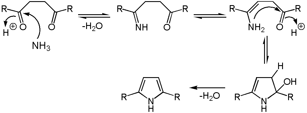 Mechanism of the Paal-Knorr synthesis